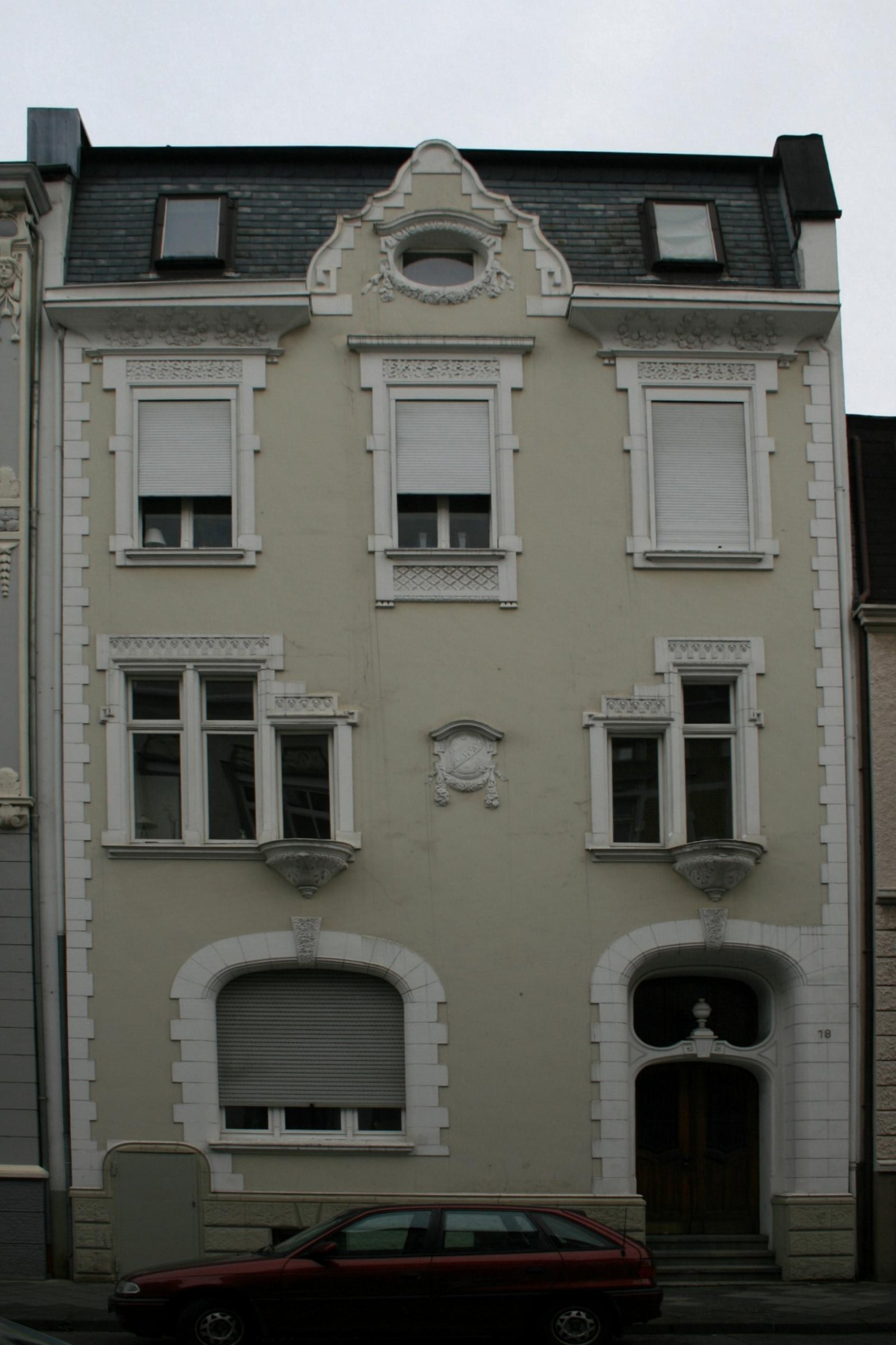 Cultural heritage monument No. St 033 in Mönchengladbach